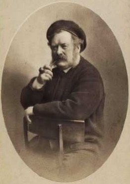 Carl Frederik Sørensen (1818-1879), Danish marine painter